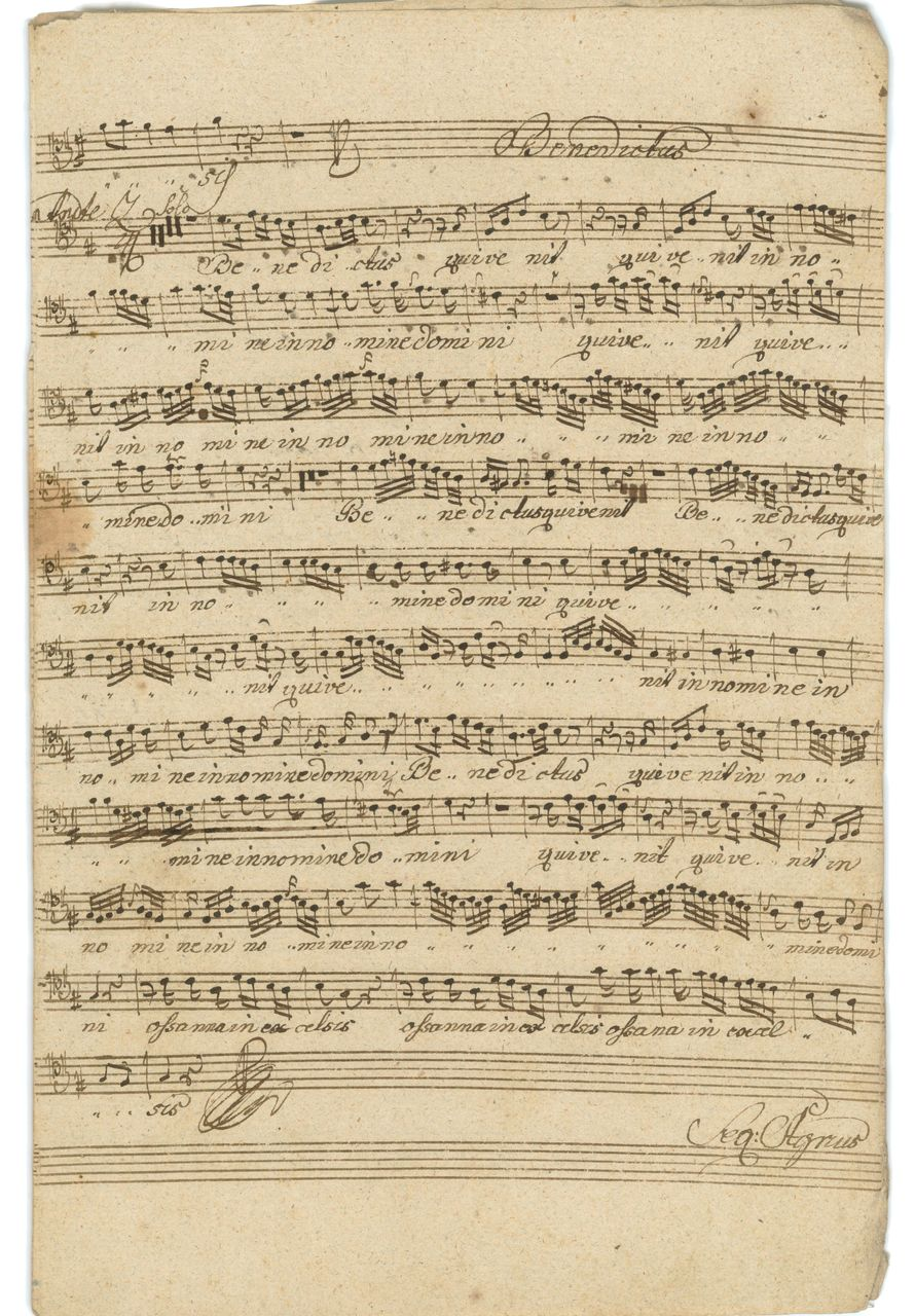 Jakub Lokaj_Missa in D